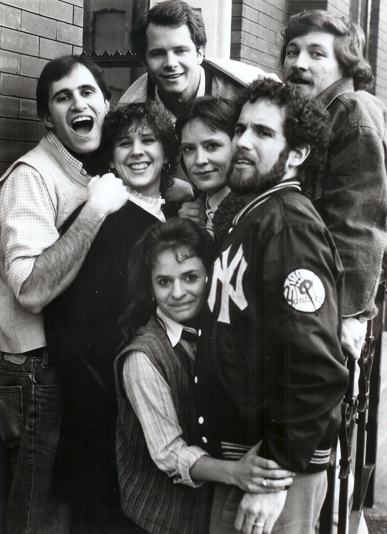 "Megafun" cast photo: (Bottom) Victoria Zielinski -- (Middle) Richard Kind, Jane Muller, Lynn Anderson, Jeff Lupetin -- (Top) Tom Virtue, Jamie Baron (1983)